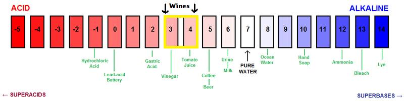 Diagram of the pH scale with the typical pH levels of wine highlighted